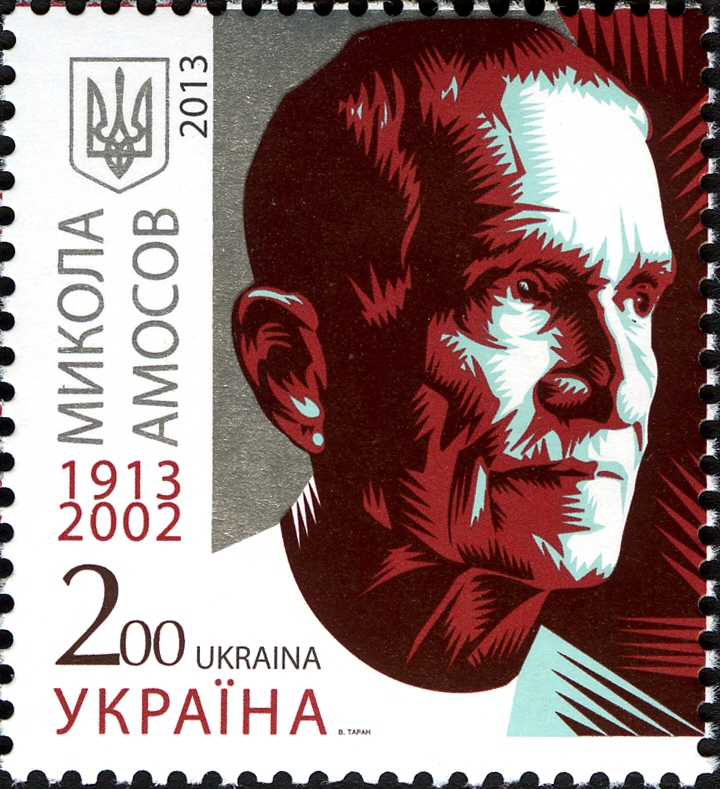 Stamps of Ukraine, 2013